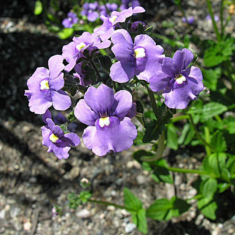 A South African species which has entered garden circles as Bluebird or as Mauve Nemesia. Likely just a blue form of N. fruticans. University of B.C. Gardens, Vancouver.